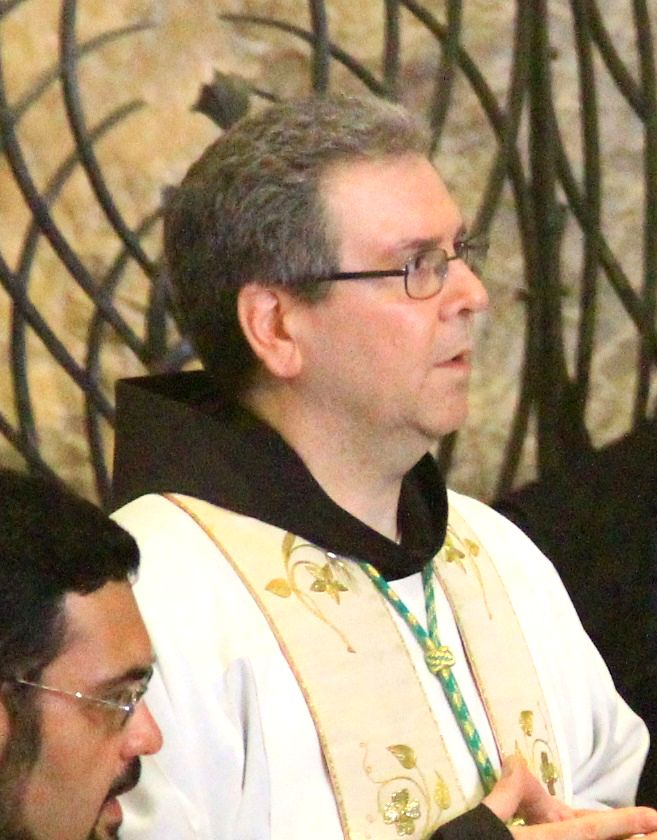 Fra Francesco Patton, Custos of the Holy Land since 2016